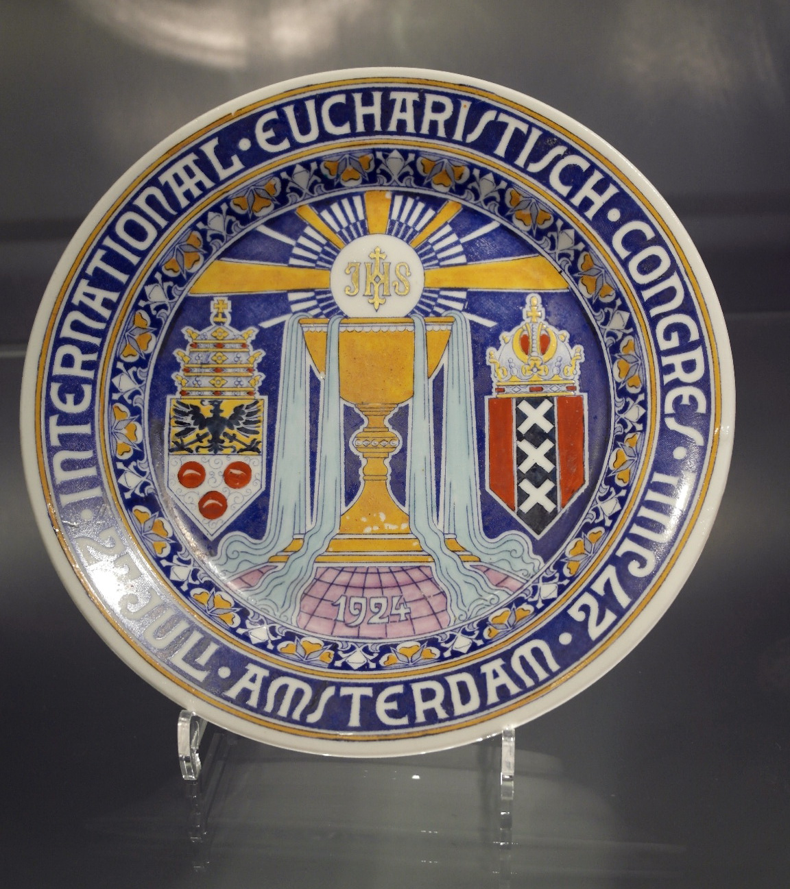 Commemorative plate of the International Eucharistic Congress in Amsterdam (1924), produced by Mosa potteries in Maastricht, Collection Henk van Buren, now in Centre Ceramique, Maastricht, the Netherlands.